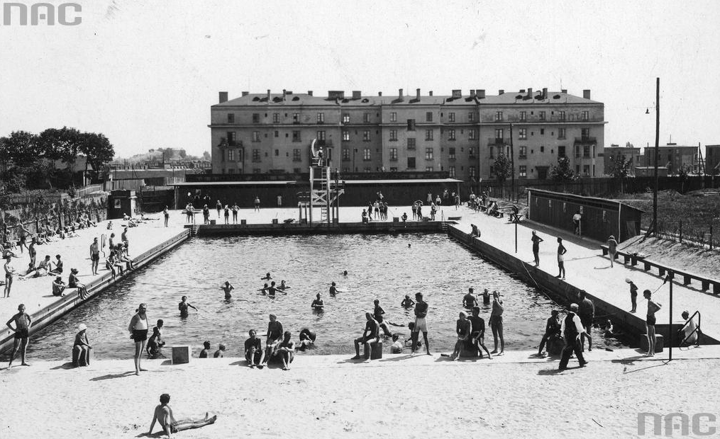 Swimming pool - ŁKS